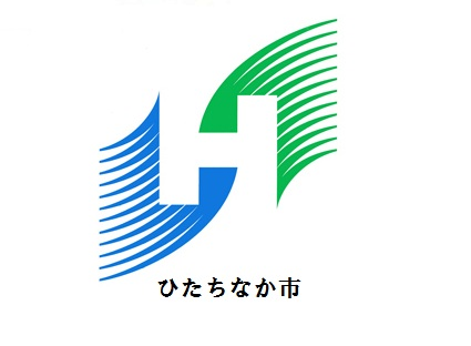 Flag of Hitachinaka Ibaraki